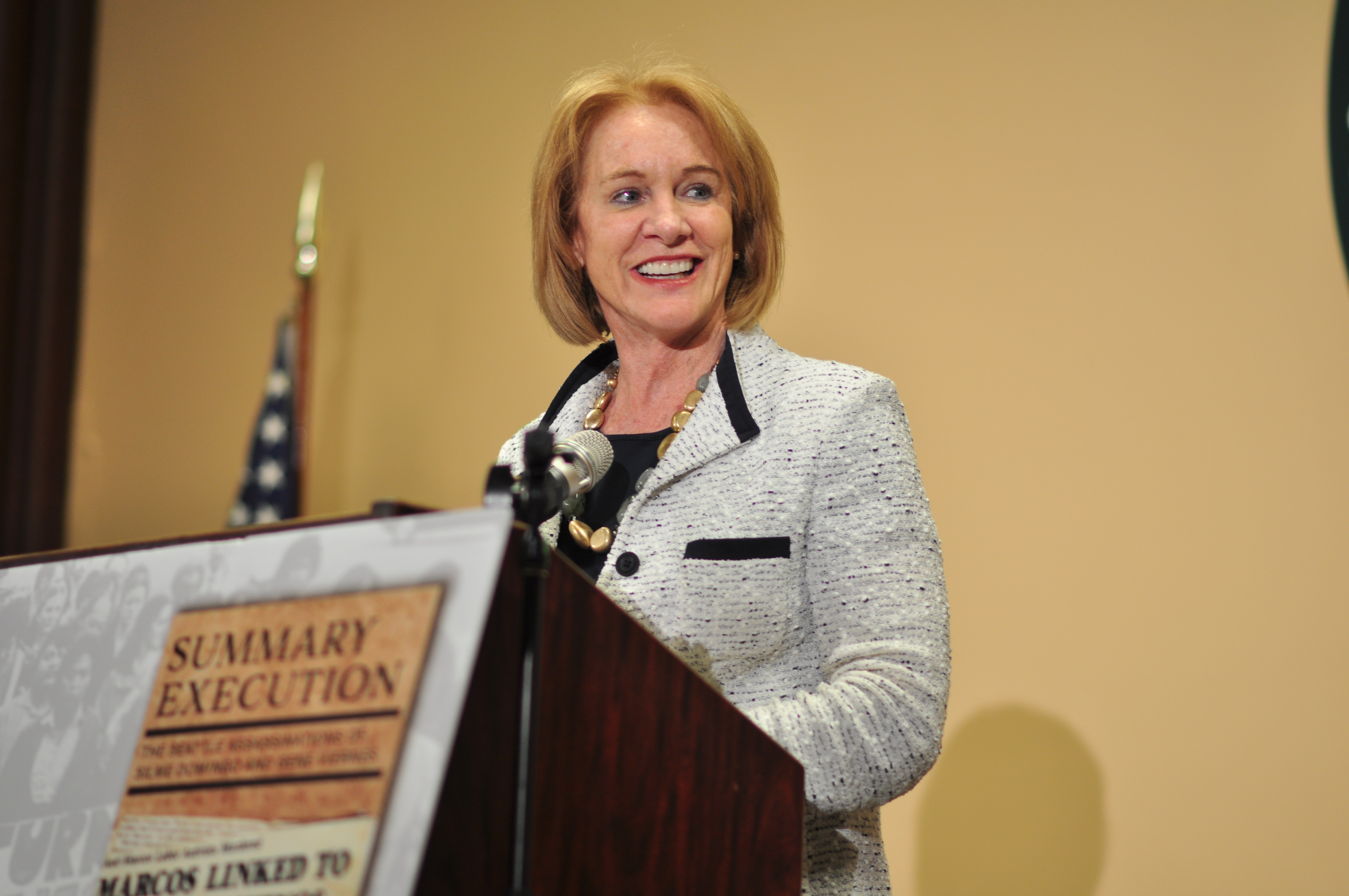 Seattle mayor Jenny Durkan speaking at the book launch for Summary Execution by Michael Withey, Seattle Labor Temple, March 20, 2018. Durkan, a former federal prosecutor, has urged the FBI to make public their remaining unreleased files about the case of Silme Domingo and Gene Viernes, the subject of the book.